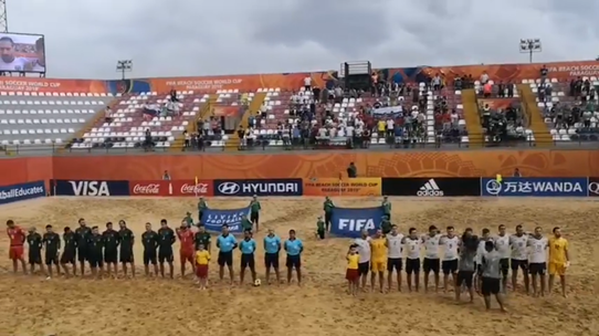 Italy and Russia lining up for the national anthems before their semi-final encounter at the 2019 FIFA Beach Soccer World Cup